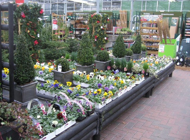 Trays of pansies Sherfield on Loddon garden centre.